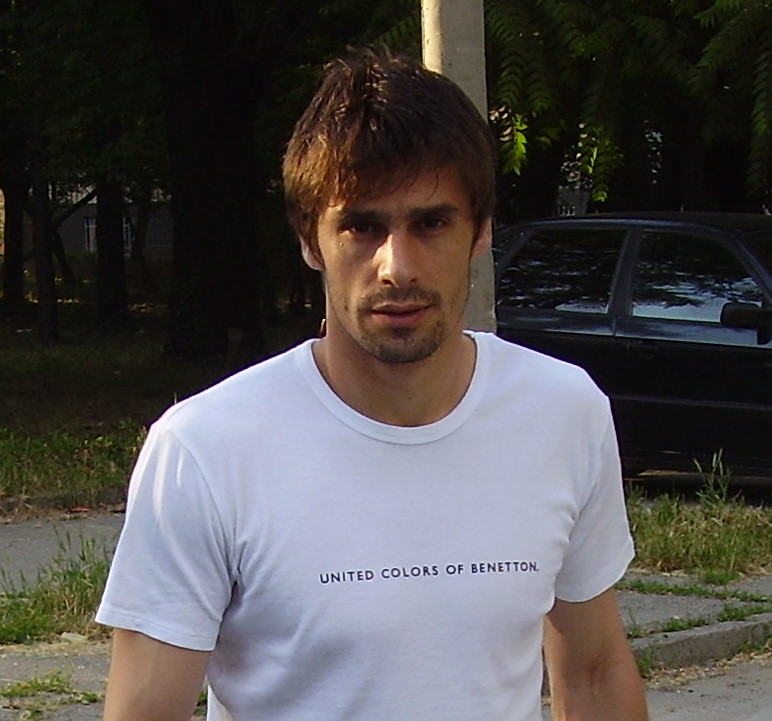 Džemal Berberović